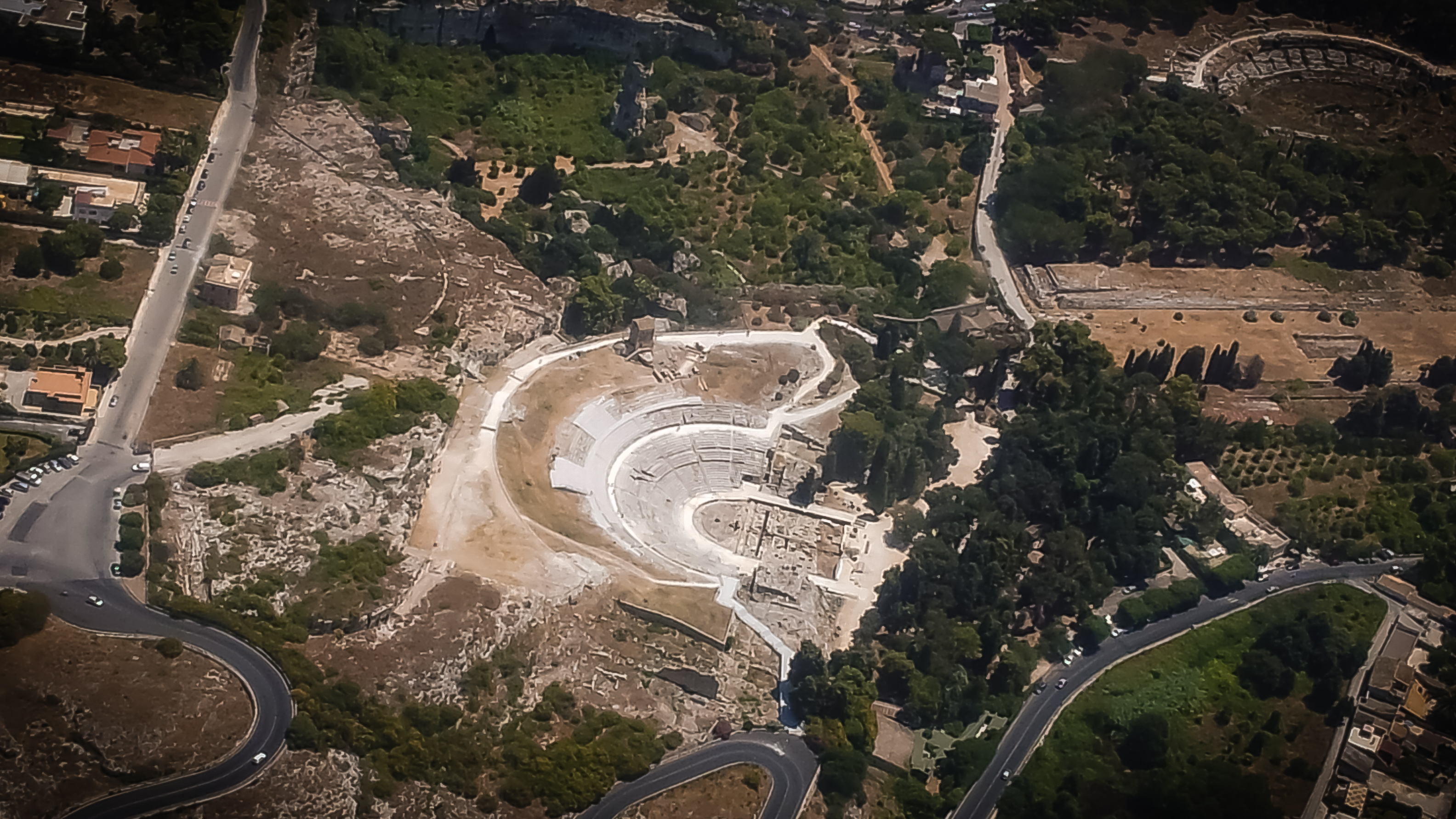 Archaeological area of ​​Syracuse - aerial view